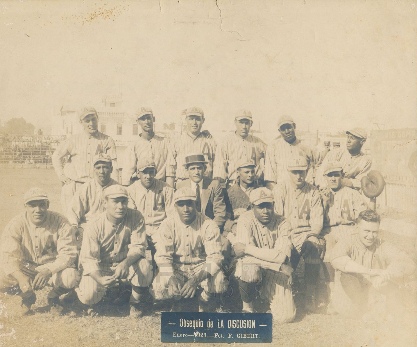 1922-23 team photograph of the Almendares club of the Cuban Winter League in uniform. Led by Hall of Famer Martin Dihigo (front row center) and included Barnardo Baro (2nd from left front row), Edgar LePard (2nd from left middle row), Valentin Dreke (2nd from right back row), Isidro Fabre (back row far right), Oscar Rodriguez (2nd from left back frow), Armando Marsans (center with straw hat) and Wickey McAvoy (front row far right, he was one of the first white players to play in Cuba).